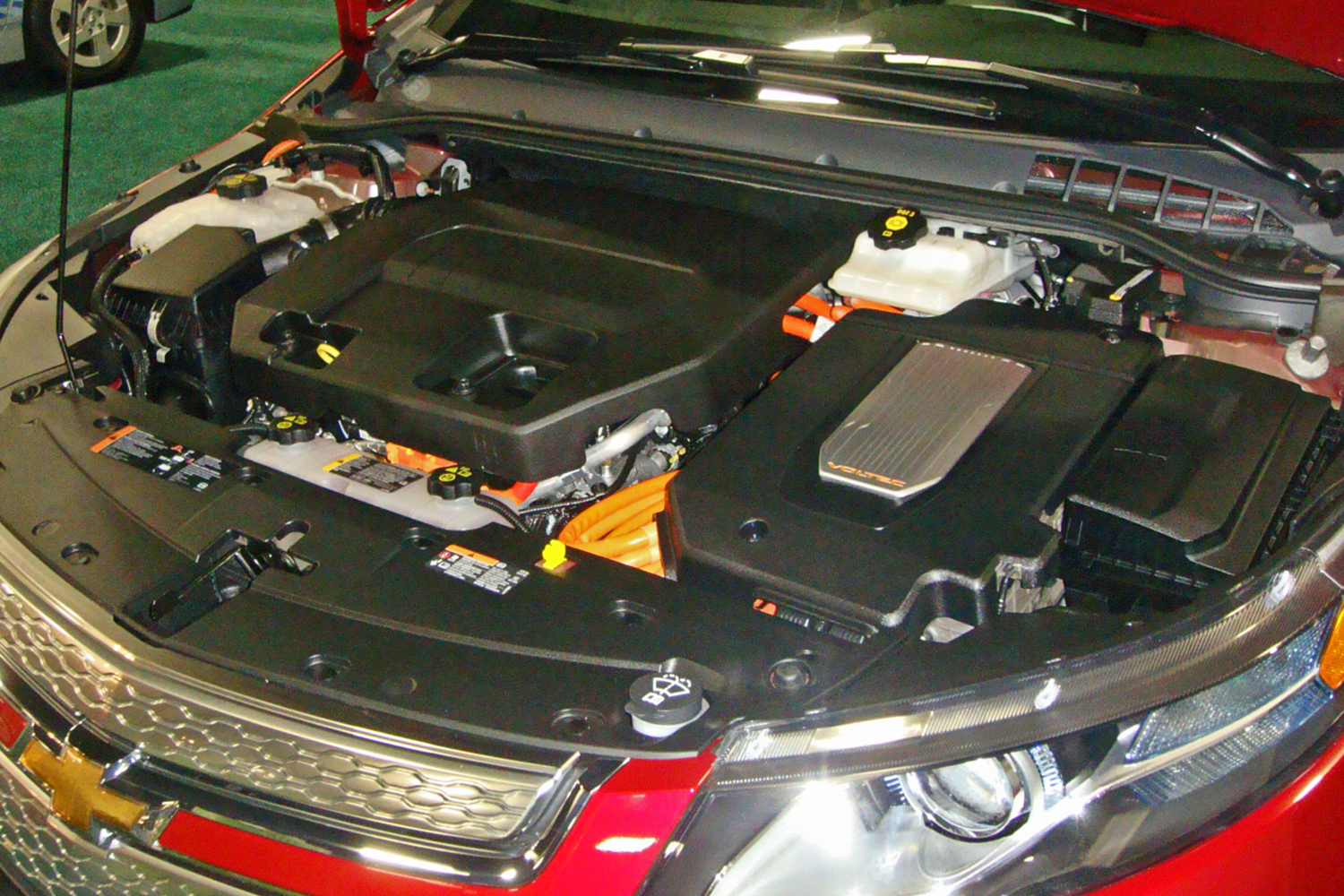 2011 Chevrolet Volt under the hood. Right side: the power inverter on top of the electric drive unit (electric motor) used for traction. Left side: the 1.4-liter gasoline-powered engine used as generator to provide power to the electric motor or to engage mechanically to assist propulsion when the battery is depleted under special power demand condition. Taken at the 2011 Washington Auto Show.